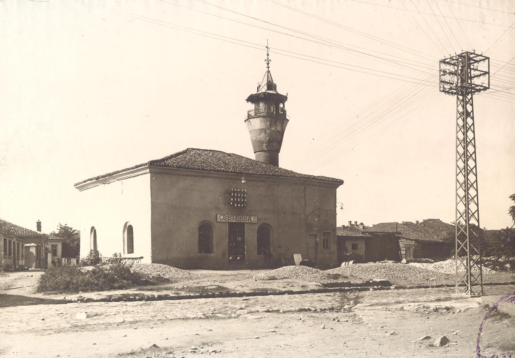 Pazardzhik, Bulgaria, 1928